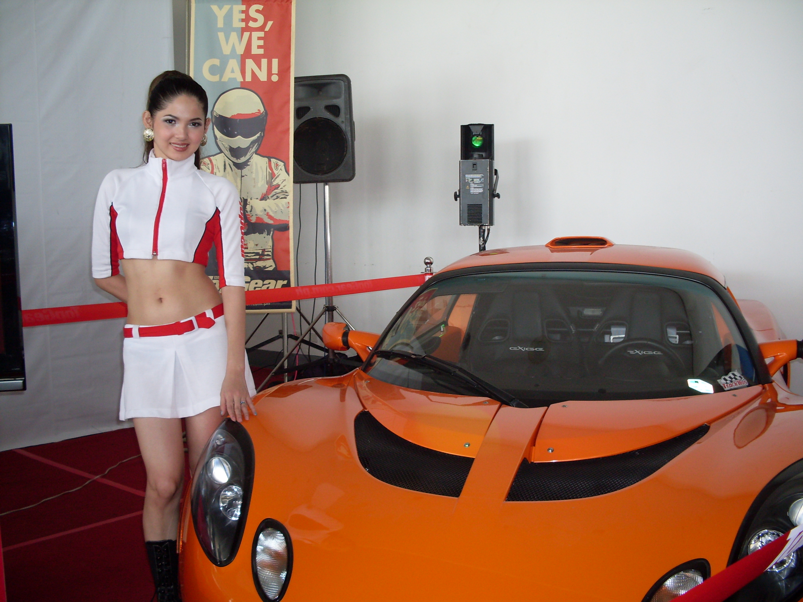 An Asian model at a carshow promoting Top Gear magazine. The car is a Lotus Exige